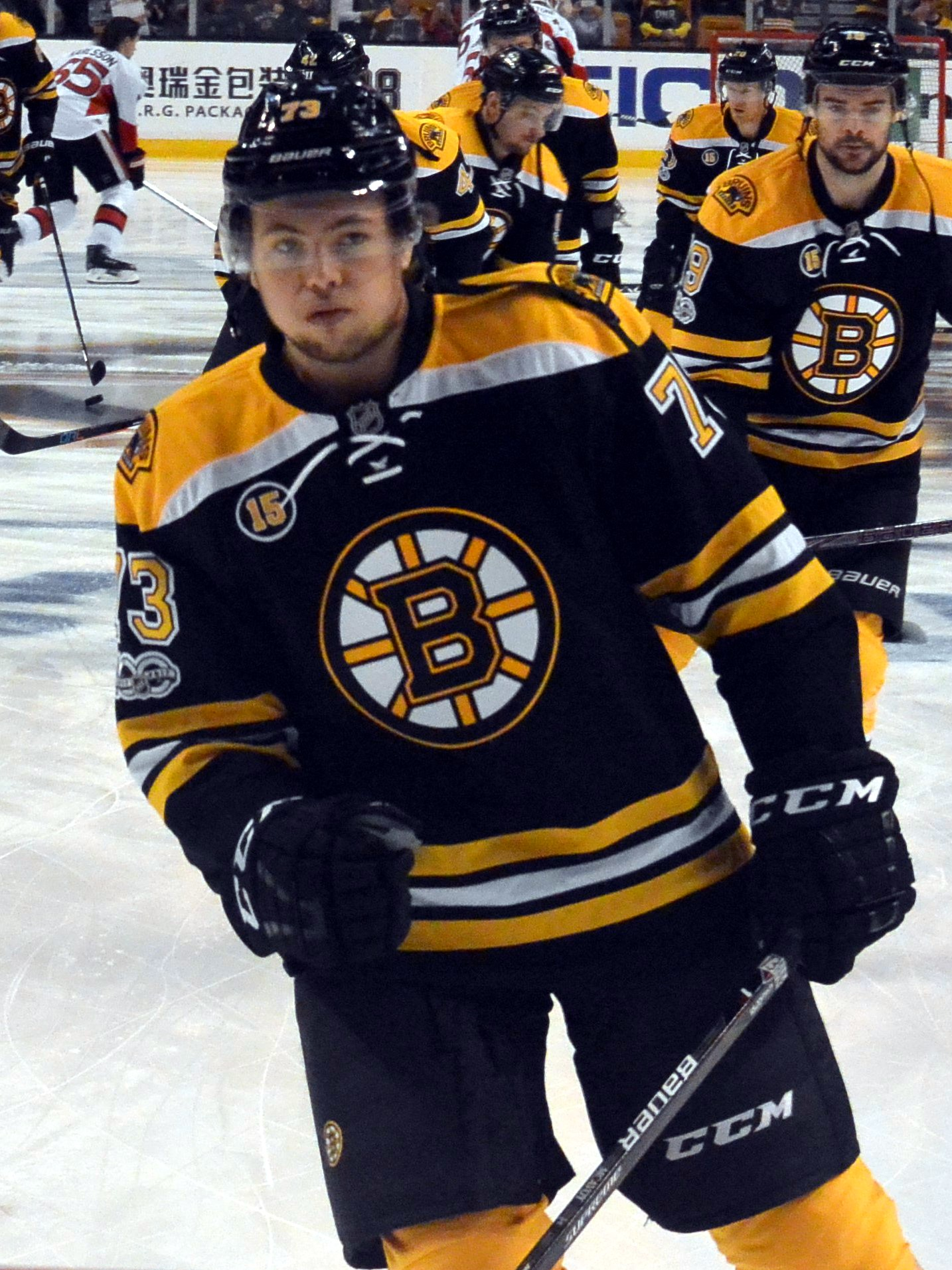 Charlie McAvoy before game 6 of 2017 Bruins Senators playoff series